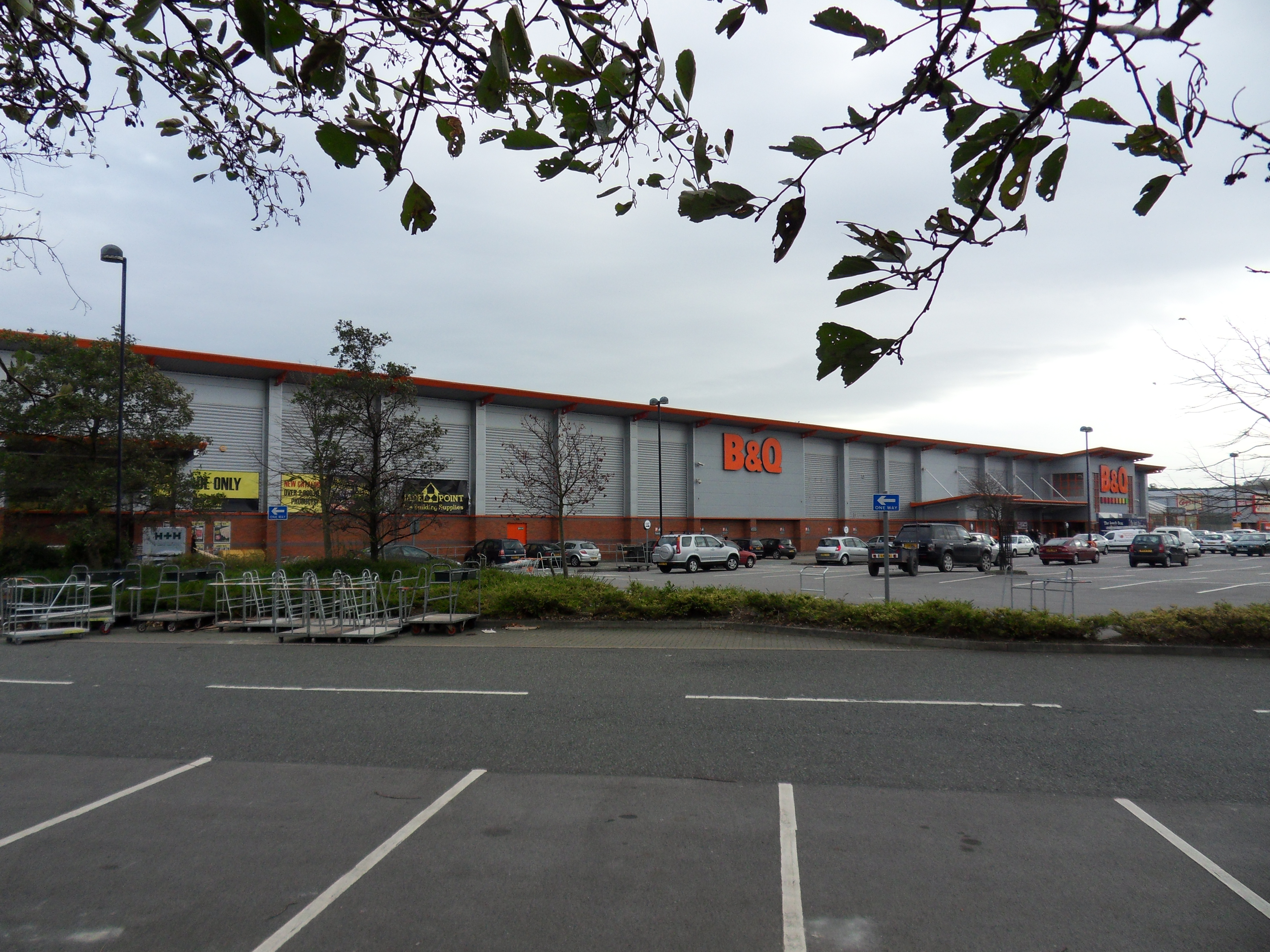 Be and Queue